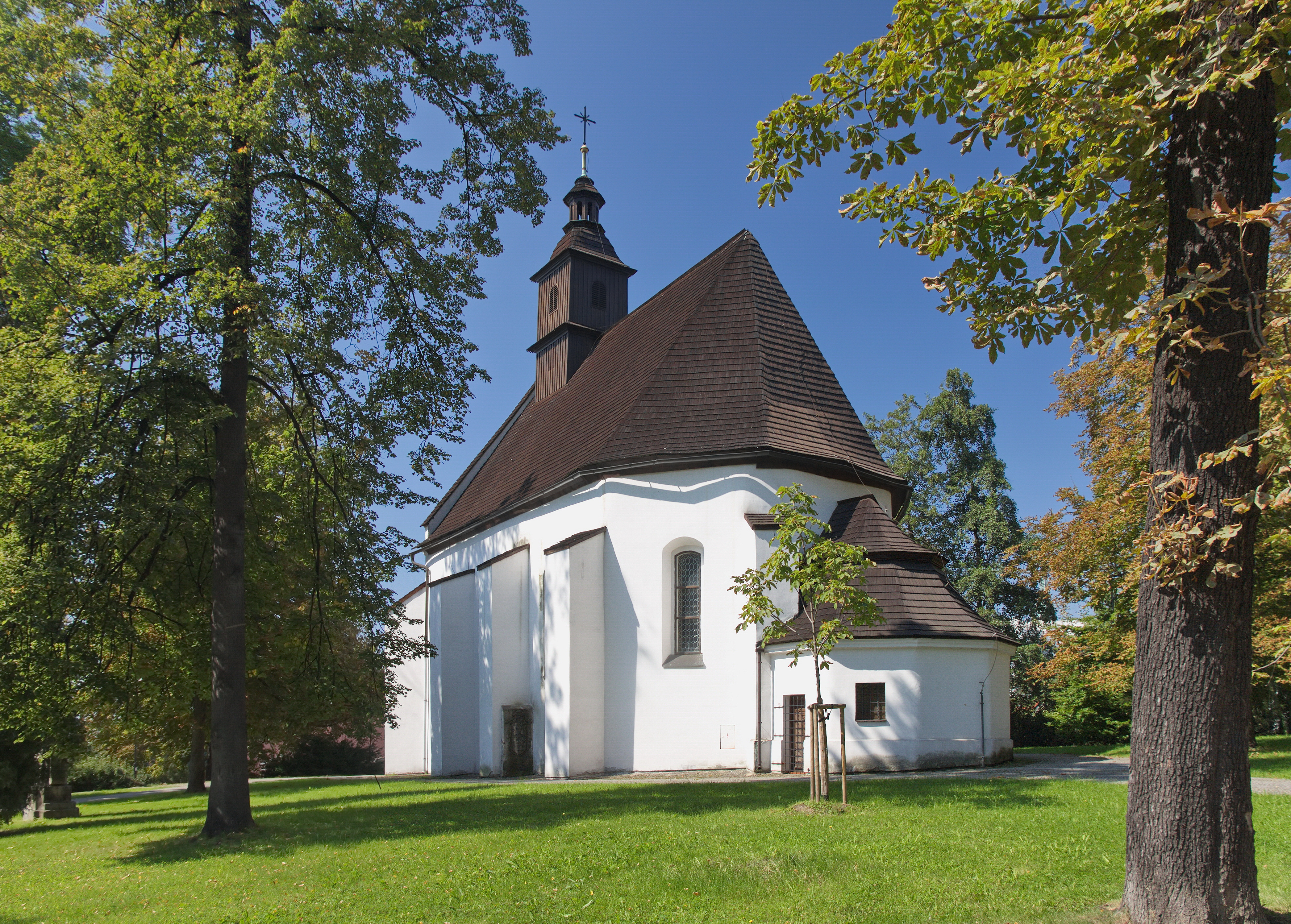 Church of Saint Judoc, Těšínská street, Frýdek-Místek. Moravian-Silesian Region, Czech Republic.